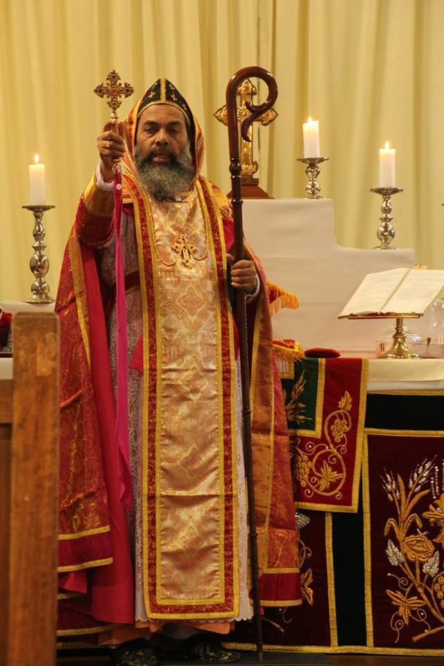 Mar Thoma Bishop in full Liturgical Vestments